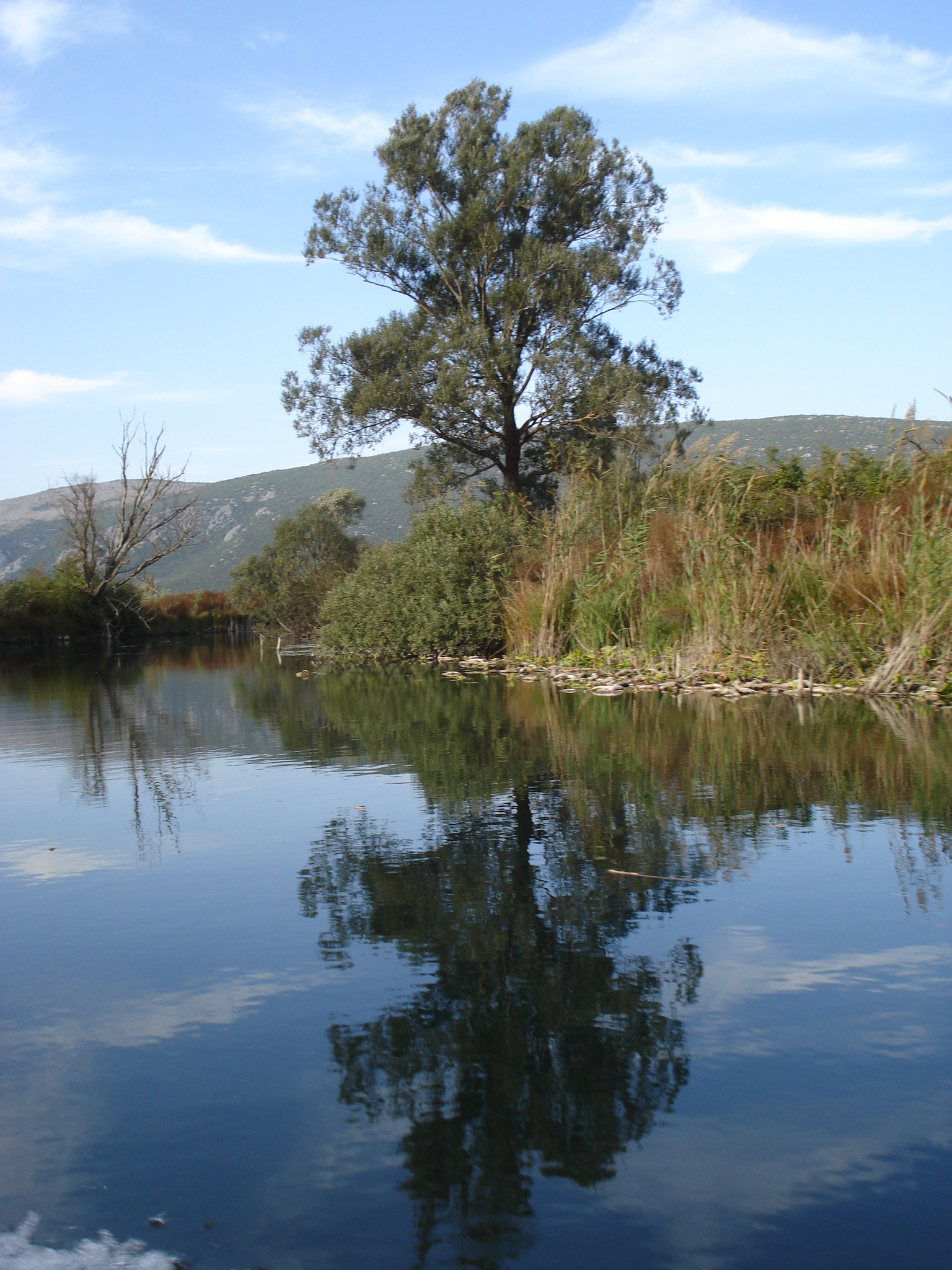 Nature park and ornitological reserve near Čapljina, Bosnia and Herzegovina.